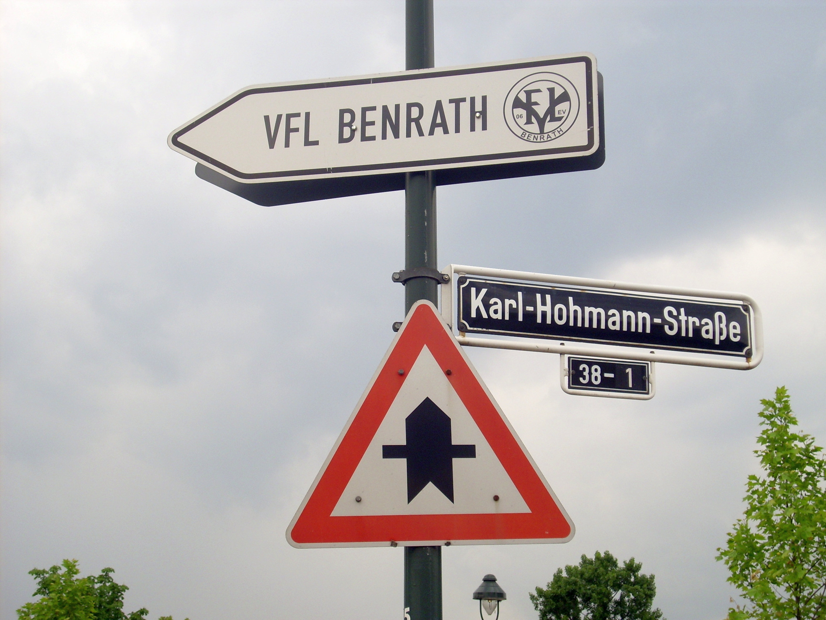 Traffic signs in Düsseldorf-Benrath. Karl Hohmann was a German football (soccer) player and coach who played for the VfL Benrath. Please, don't confuse him with the former chairman of the Ludwig Erhard Stiftung of the same name.